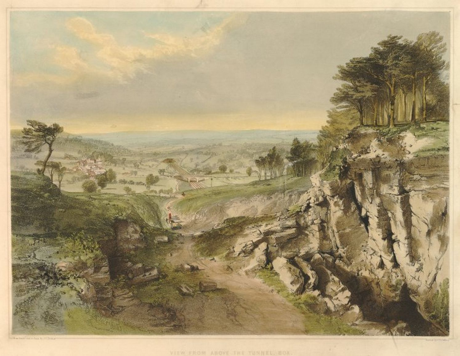 View from above the tunnel box, 1by J.C. Bourne 1847